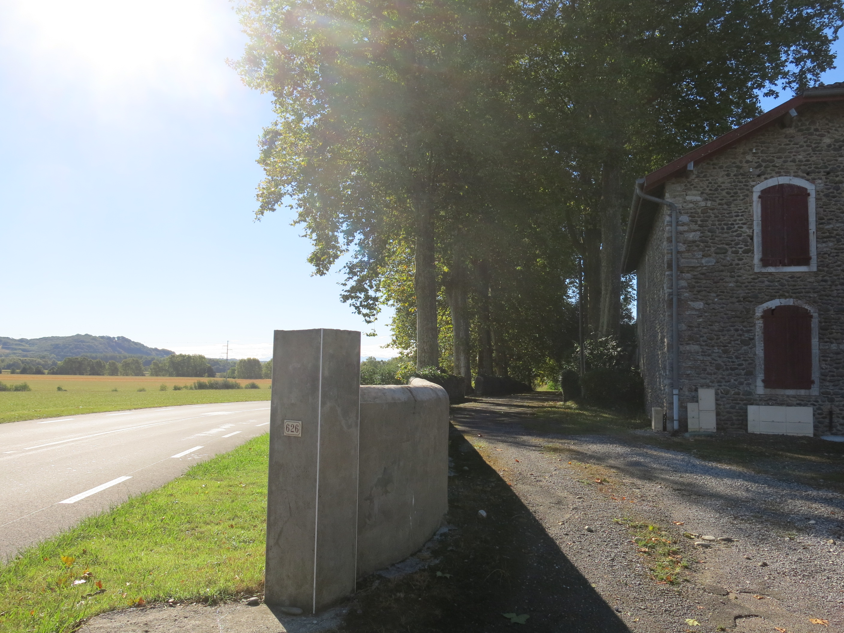 Former road D28 on the right and actual one on the left in Saint-Dos (Pyrénées-Atlantiques, France).